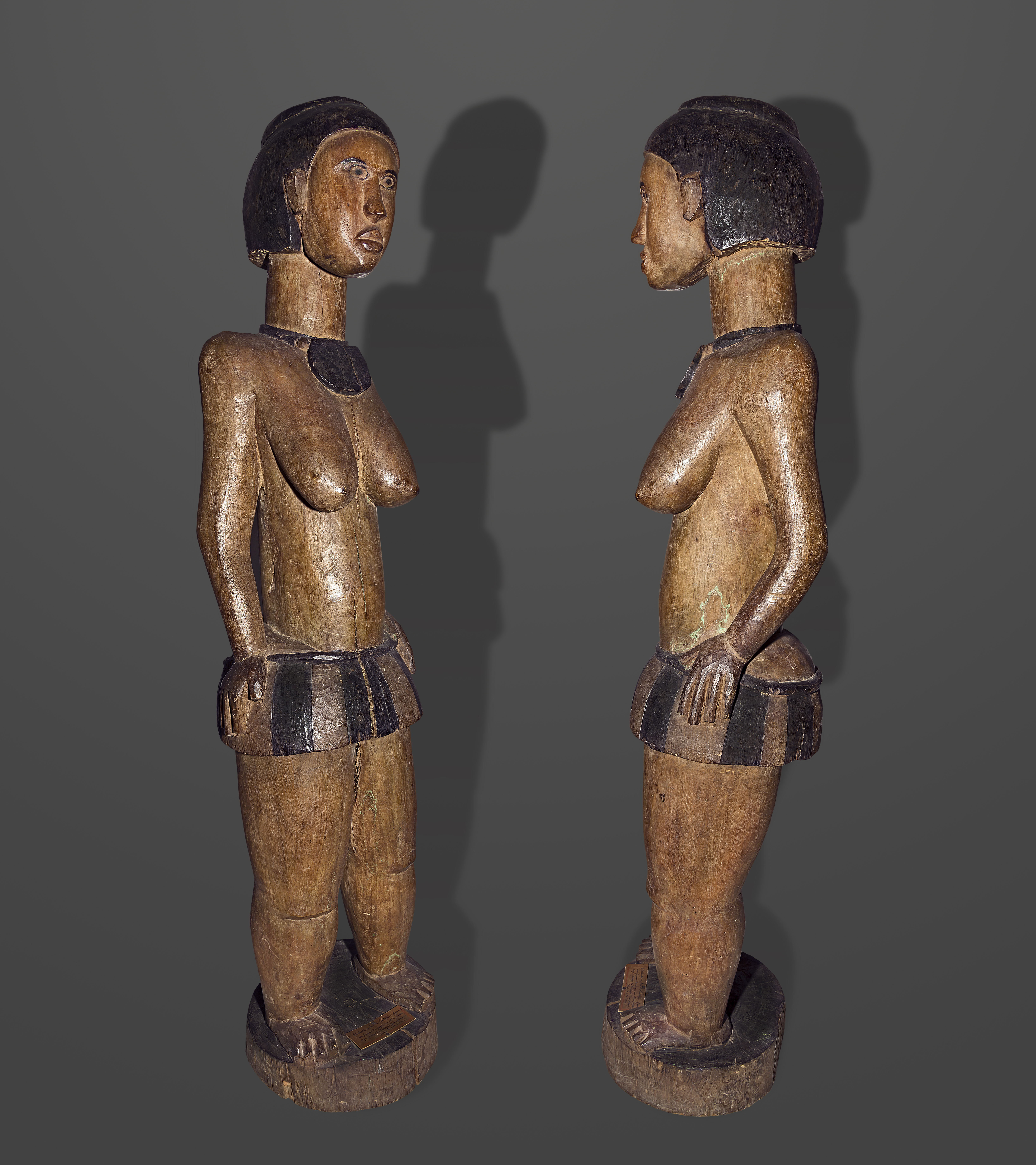 Sculpture of a woman (Two views of the same object) Population : Bijagos (Guinea-Bissau) Materials: Wood, natural dyes. Size : 115 x 29 x 23 cm Date of collection: First quarter of the twentieth century